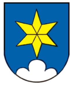 Coat of arms of Öhningen